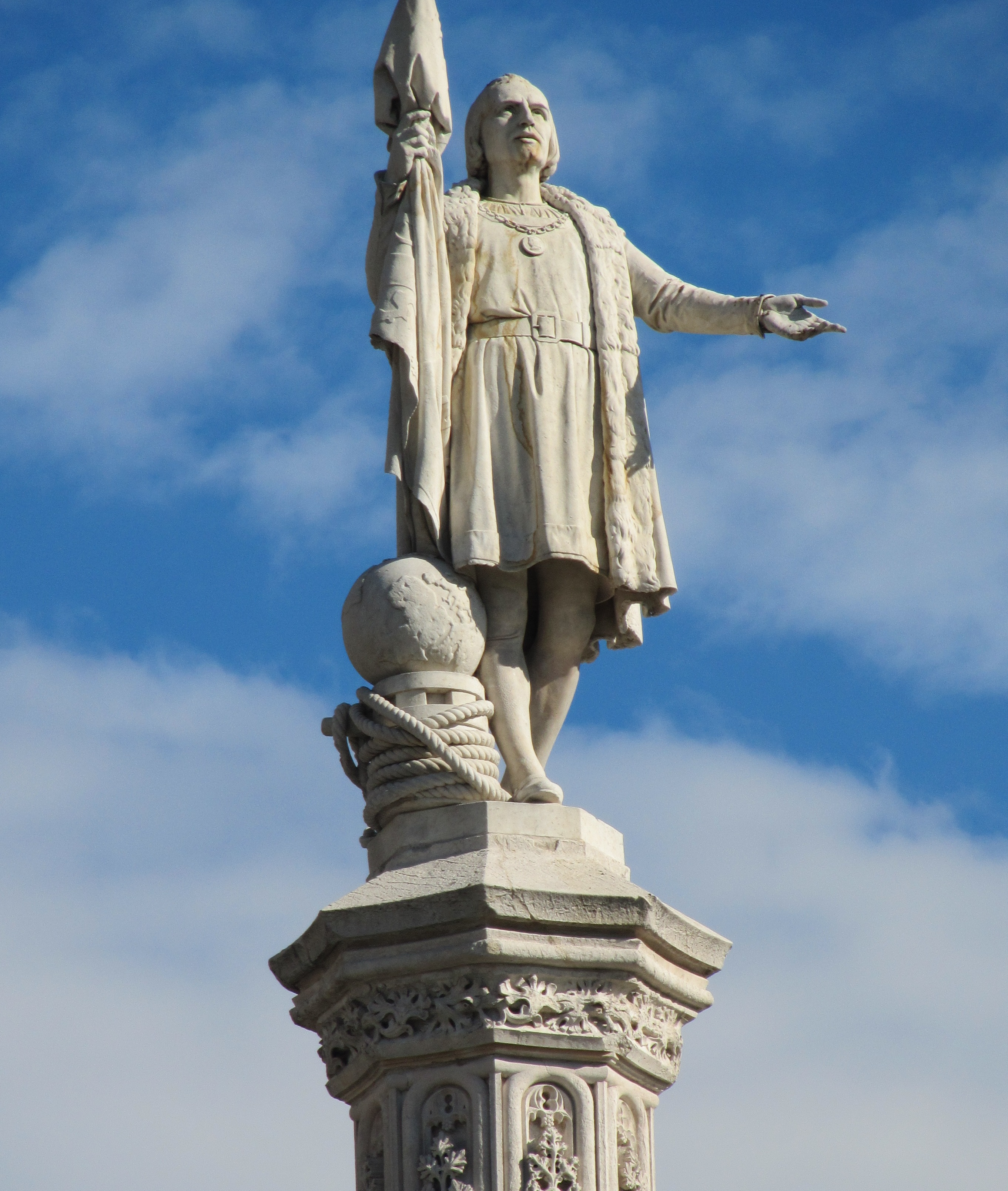 Plaza de Colón